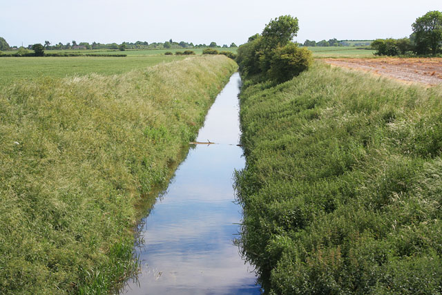 Barlings Eau, to the west of Stainton by Langworth. The curve to the left takes it under the Lincoln to Market Rasen railway line.